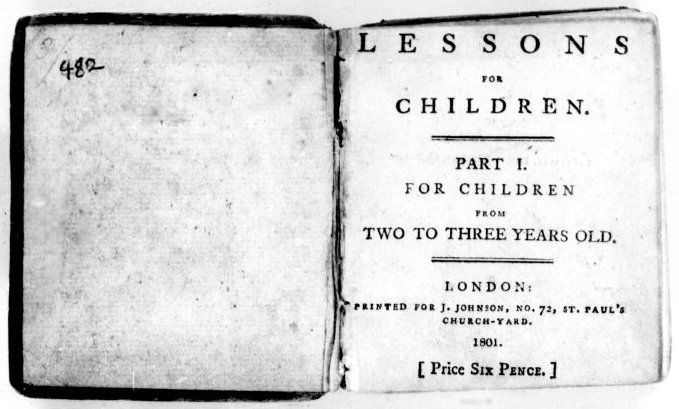 Title page from Anna Laetitia Barbauld, Lessons for Children of Three Years Old, London, J. Johnson, 1801.